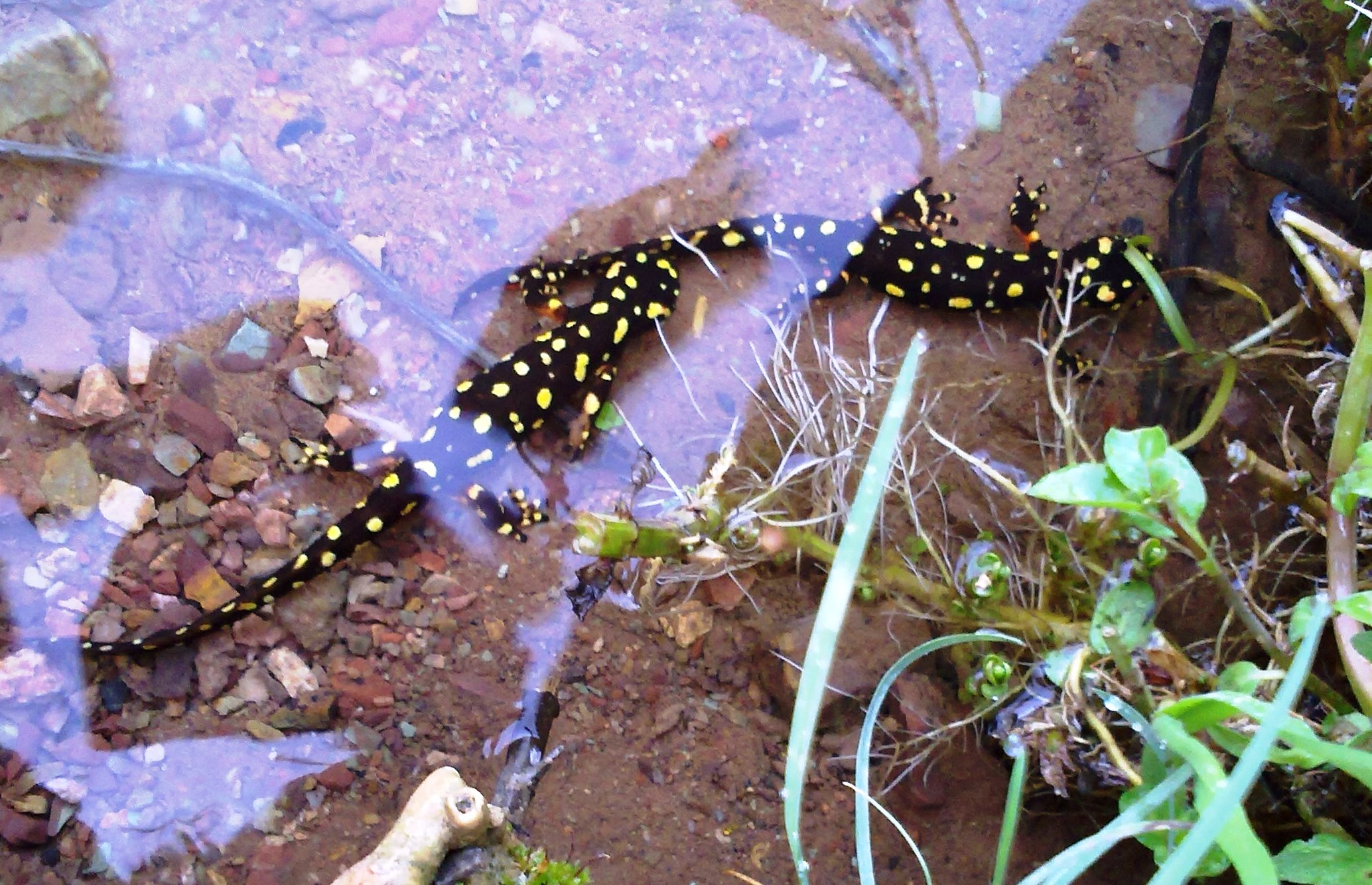 Neurergus microspilotus (Kurdistan spotted newt) in Kavat stream, near Ravansar city, Kermansah province, Iran.